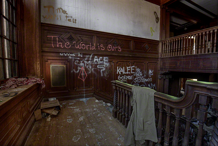 Image of the house at 13 Mansion Road known as The Charles Winship House